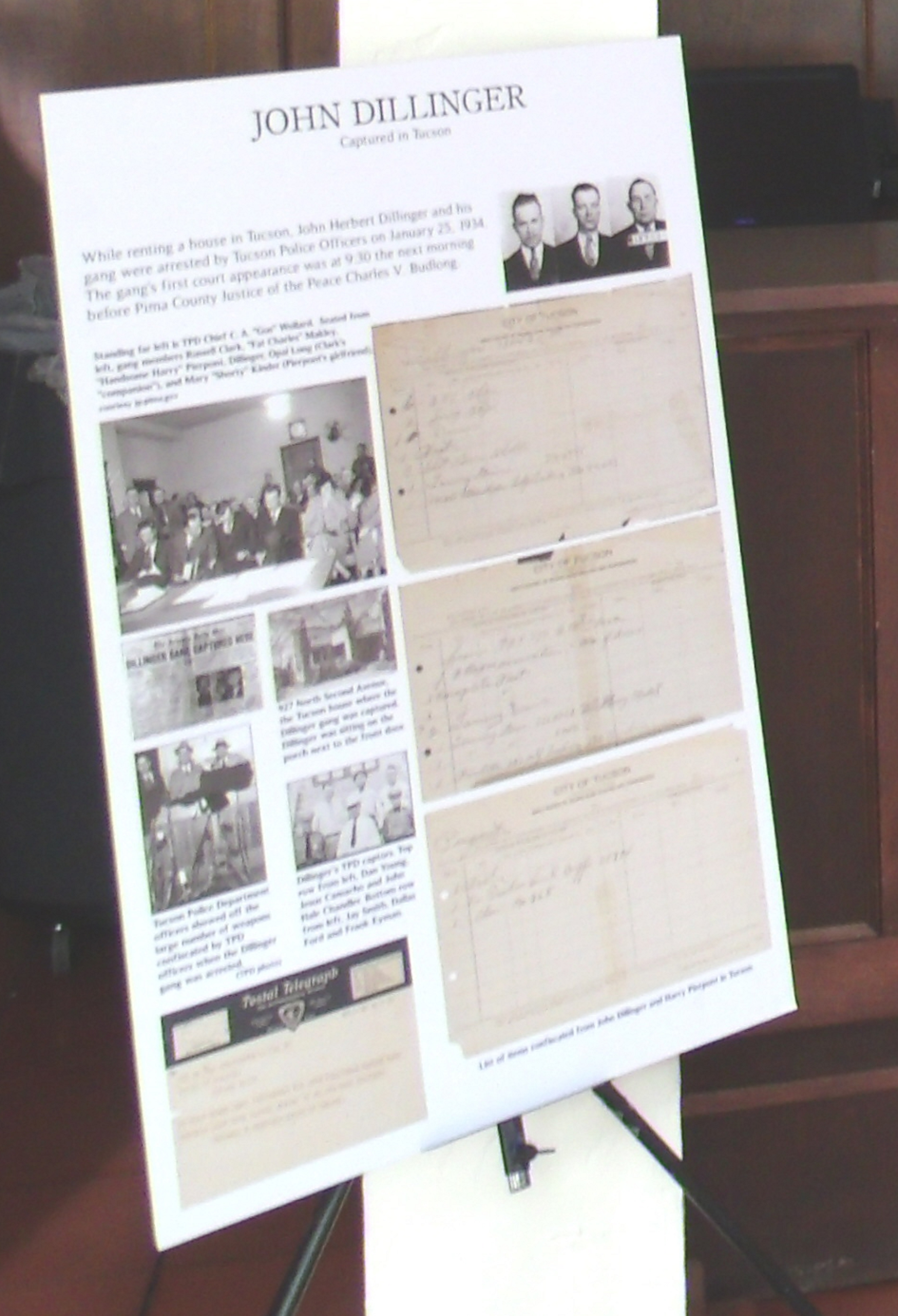 Old newspaper clipings on display in the old lobby of the historical Congress Hotel in Tucson in regard to the capture of John Dillinger in said hotel. Every January the hotel celebrates the capture of Dillinger and his gang in what they call the "Dilinger Days".